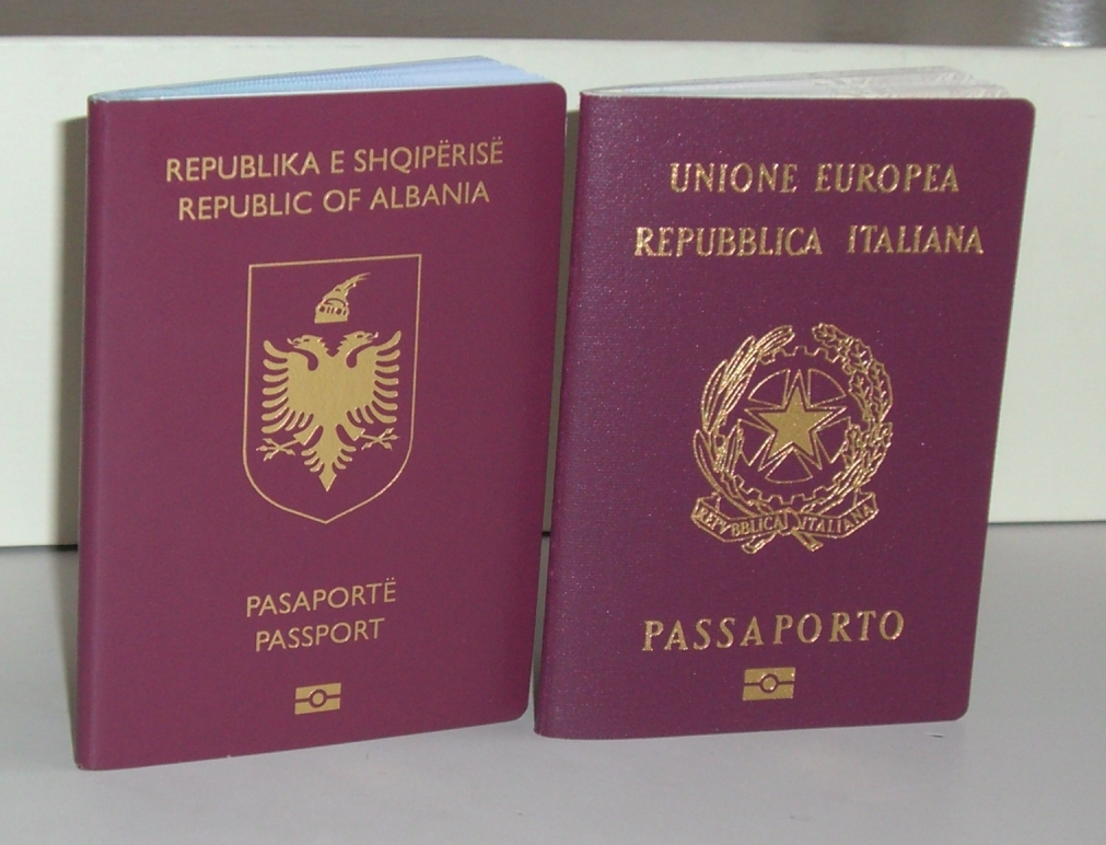 Albanian Italian biometric passports